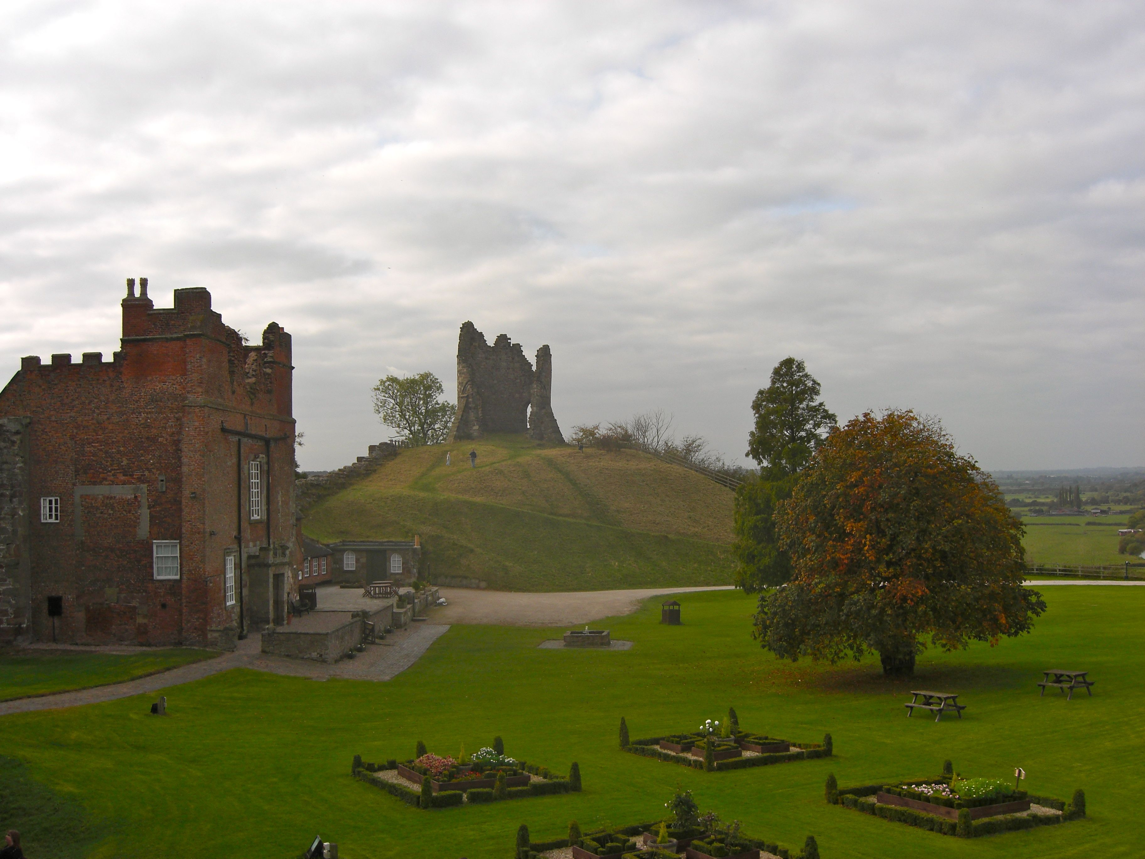 Tutbury Castle viewed from within the keep, looking west.